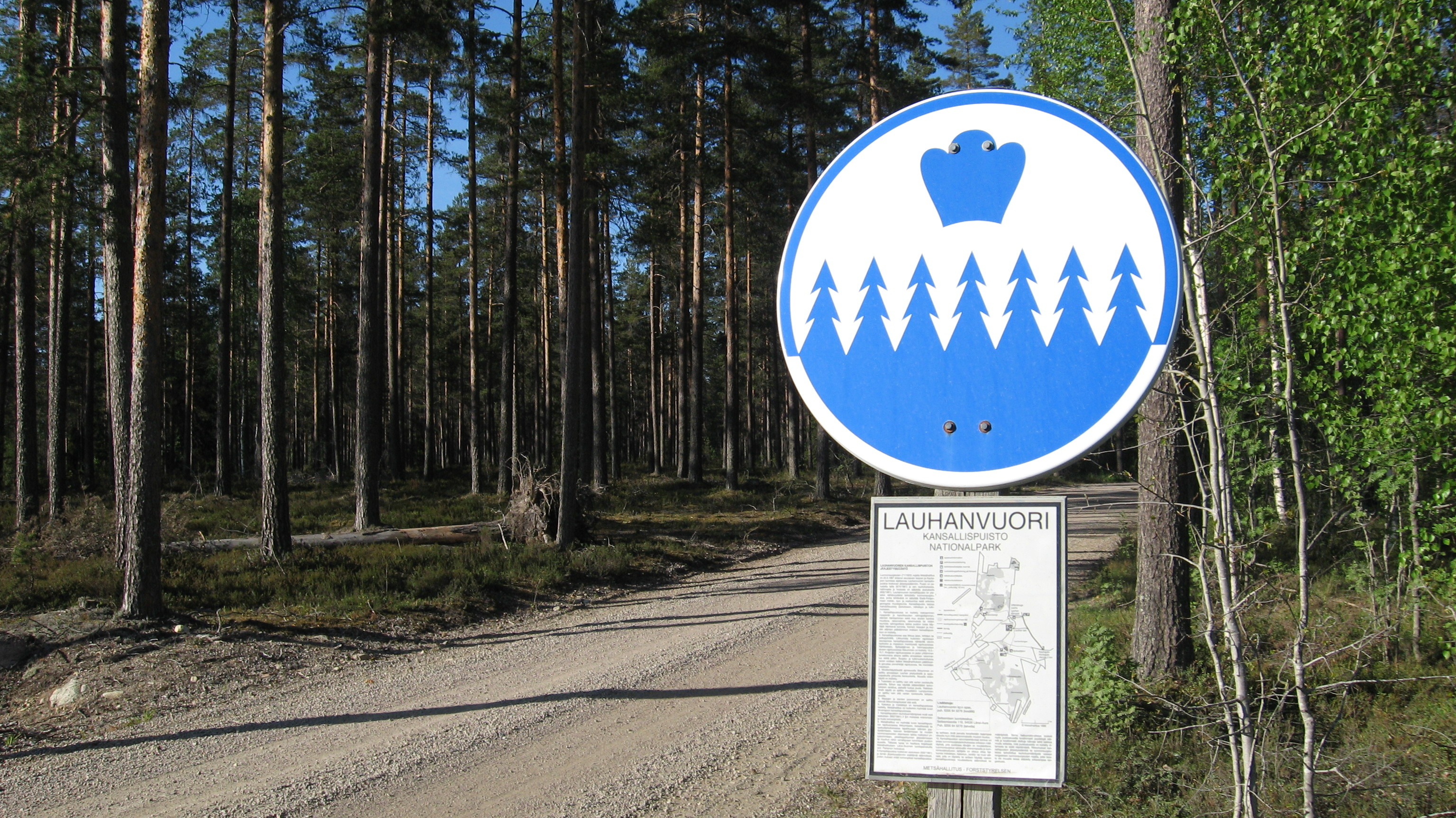 The border of Lauhanvuori National Park, Finland.